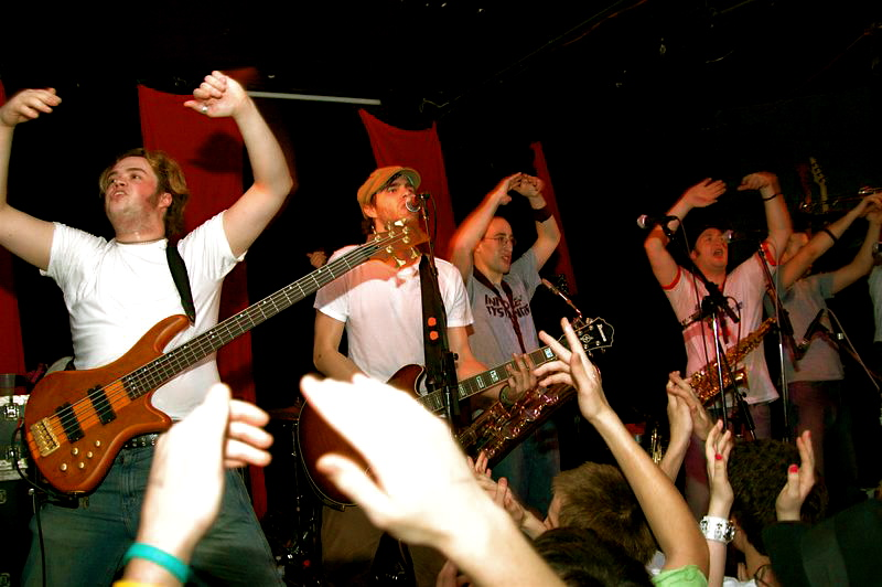 By Mark Perdomo (me). Streetlight Manifesto at the 2-17-05 "Ska is Dead" show. Sorry, I lost the original, and this limited res copy is all I have.